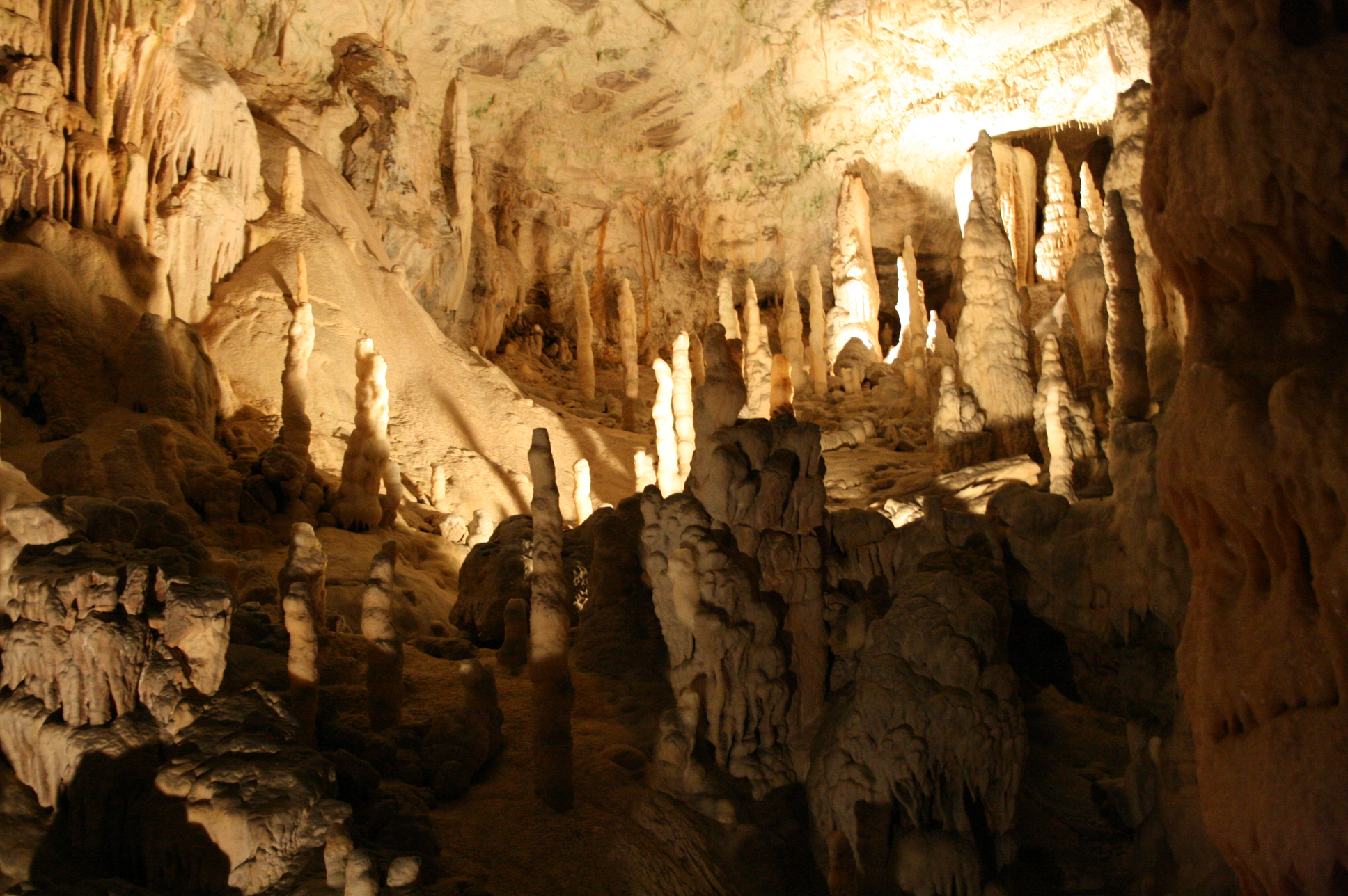 Postojna Cave - Slovenia